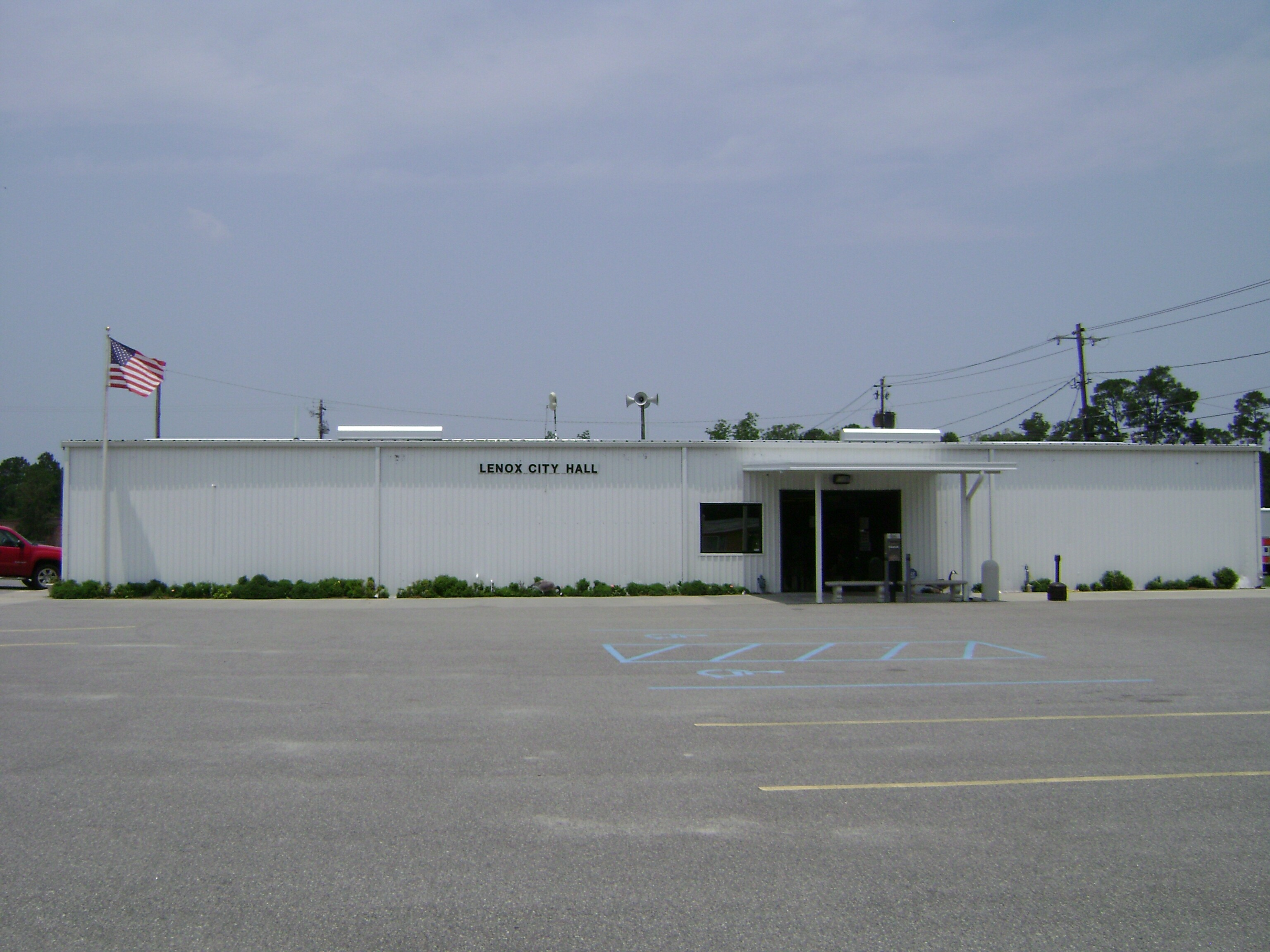 Lenox City Hall, 15 E Colquitt Ave, Lenox, Cook County, Georgia